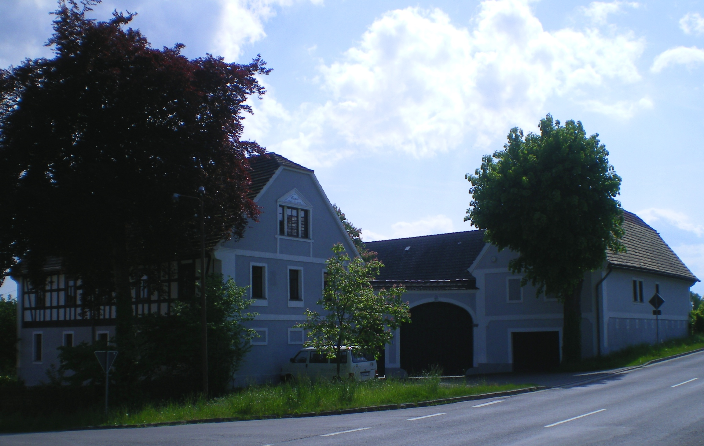 Estate in Nöbdenitz-Burkersdorf near Gera/Thuringia in district of Altenburger Land